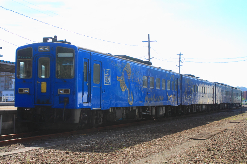 The JR East KiHa 141-700 series SL Ginga trainset at Kamaishi Station on the Kamaishi Line